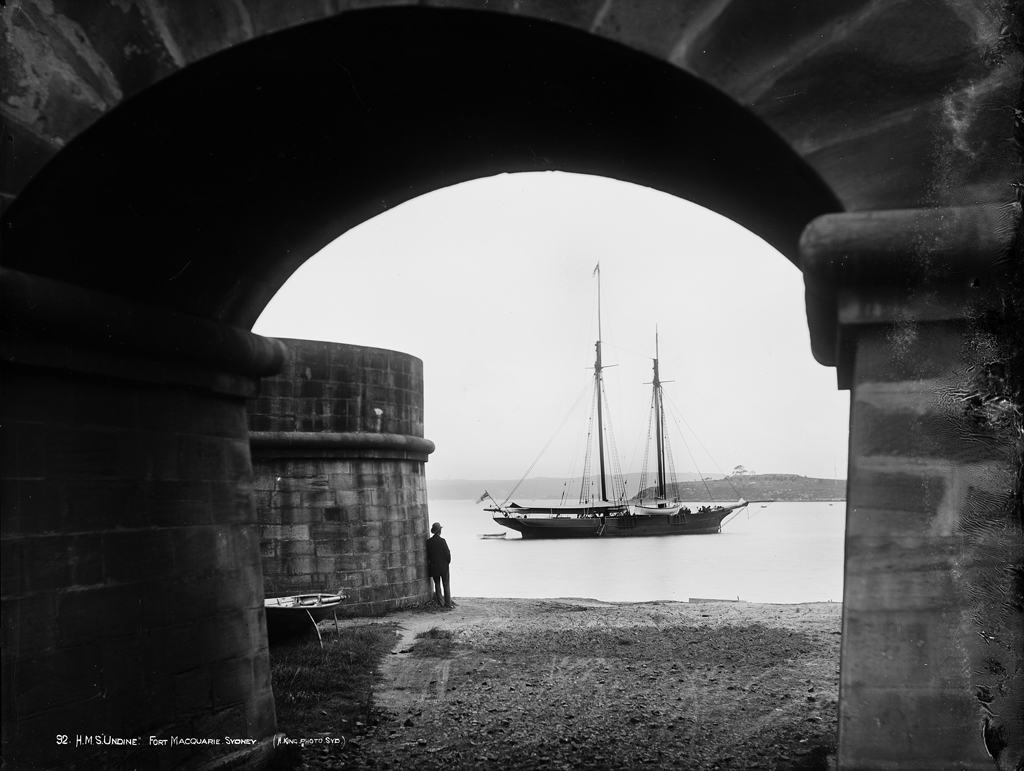 Photograph of British schooner gunboat H.M.S. Undine, viewed through ann archway from Fort Macquarie, Sydney.